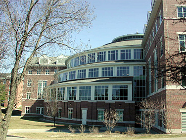 Pettengill Hall, Bates College